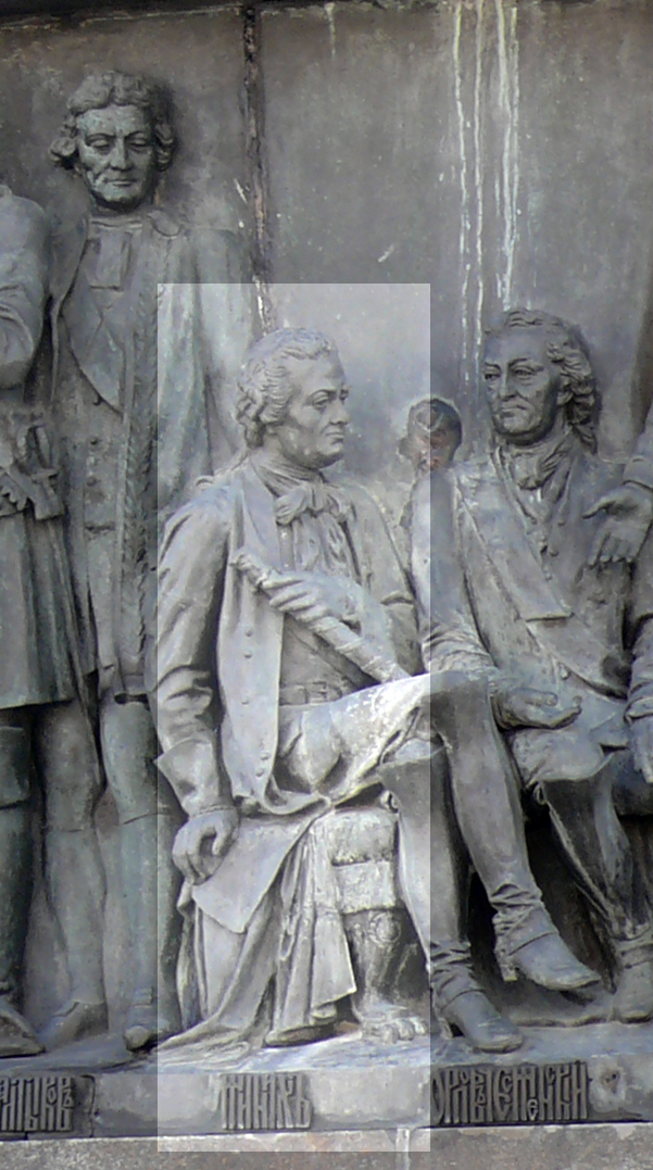 Burkhard Christoph von Münnich on the Monument «Millennium of Russia» in Veliky Novgorod